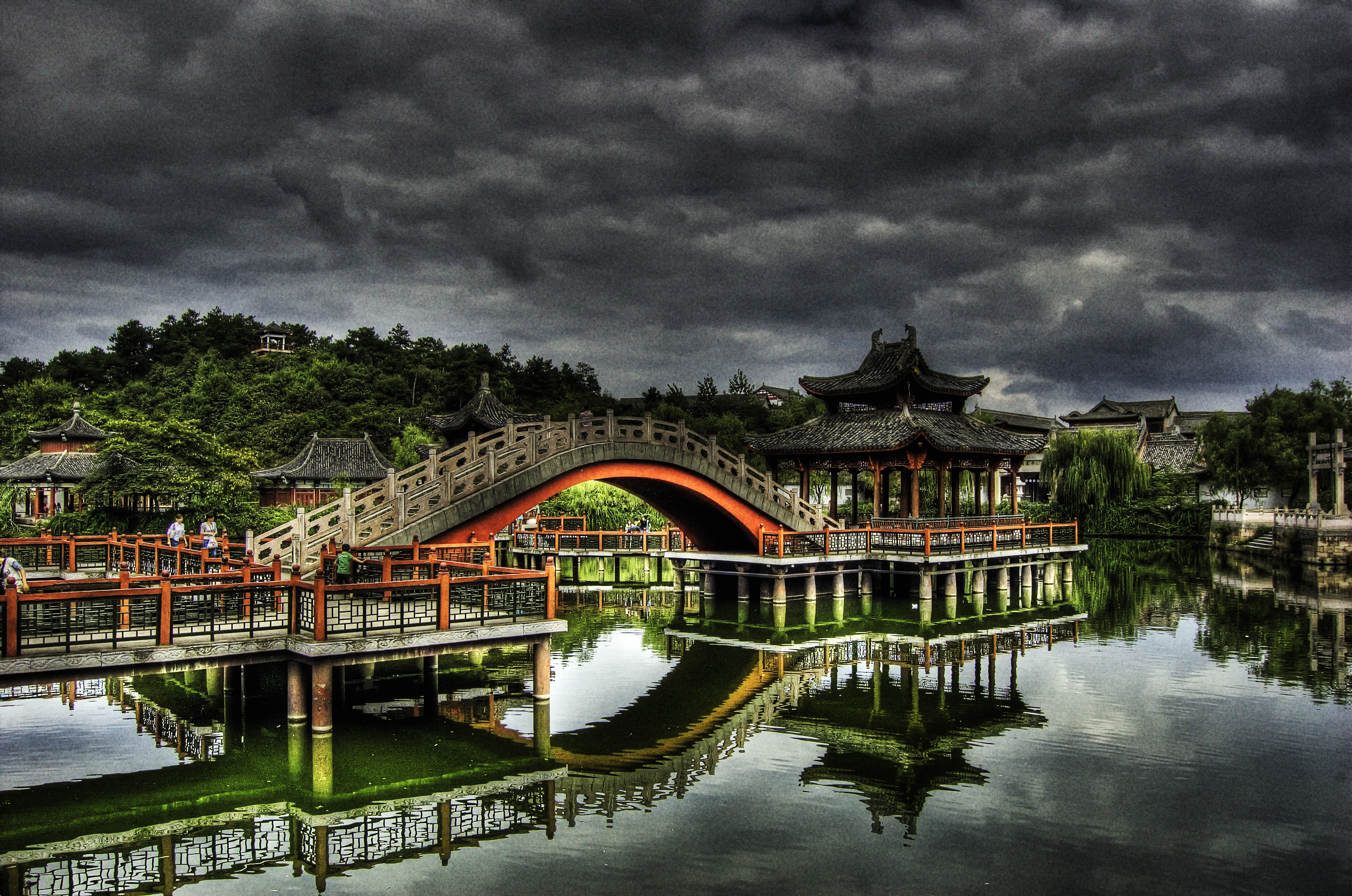 Hengdian Film Studios, China.